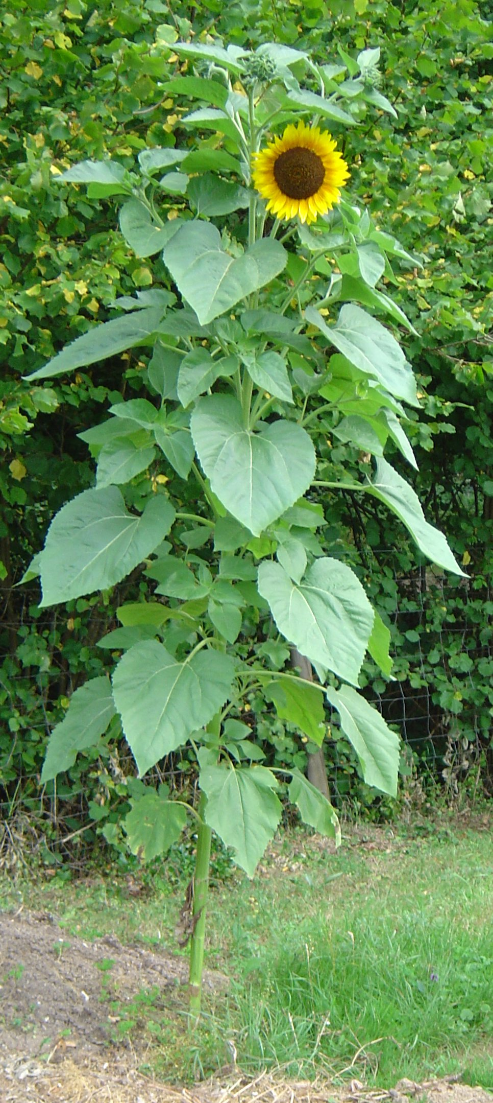 a 2m tall sunflower